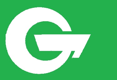 Flag of Asahi Nagano